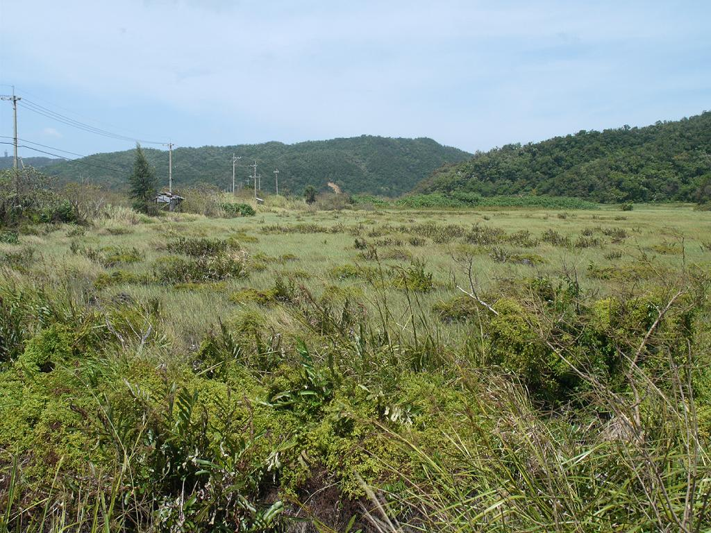 Acrostichum aureum (Pteridaceae) Japanese name:Mimimotisida：ミミモチシダ Date;2009,08.10;Iriomote Island, Okinawa prefecture, Japan Author;Keisotyo